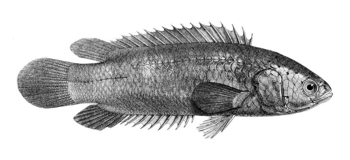 Anabas scandens, = Anabas testudineus (Bloch, 1792).